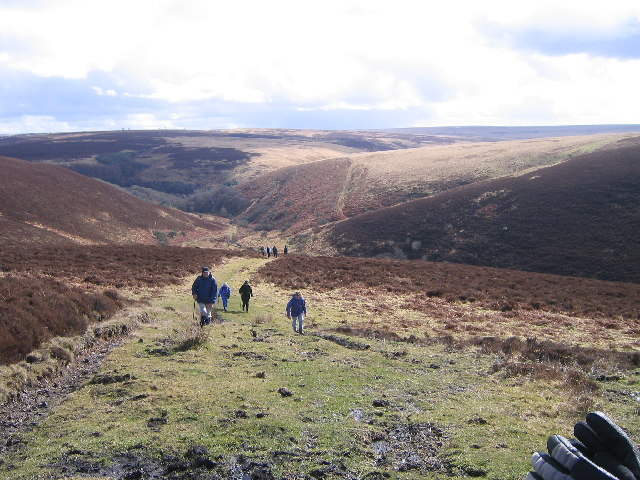 Malmsmead Hill, Exmoor. Photo showing footpath up to road across Malmsmead Hill, Exmoor.